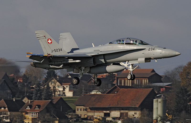 Swiss AF Boeing F/A-18D Hornet @ Payerne, Switzerland